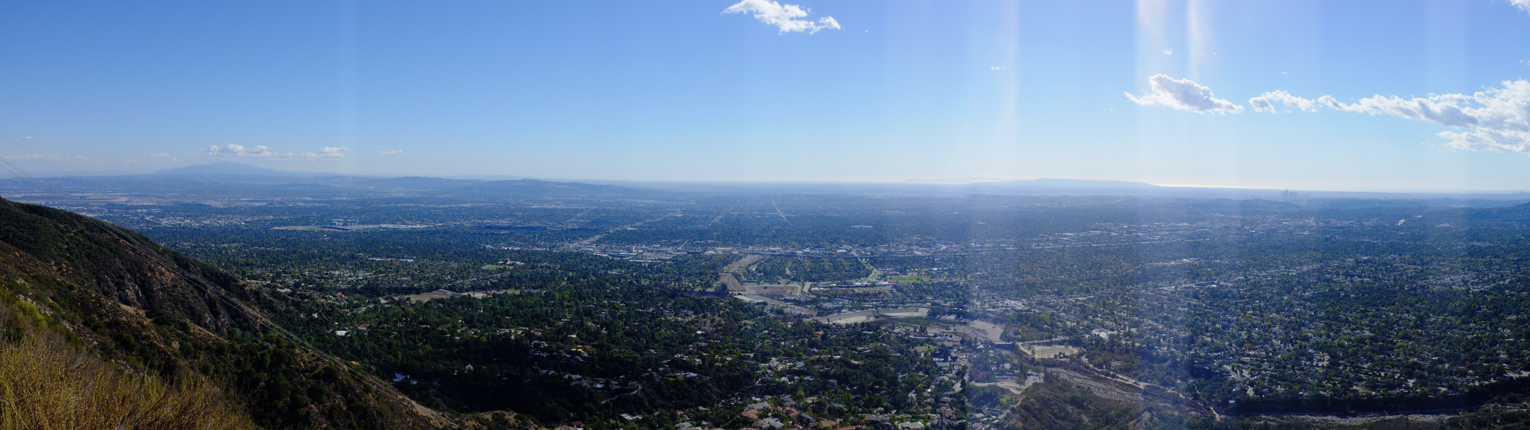 A panorama of the San Gabriel Valley taken from near Henninger Flats along the Mt. Wilson Toll Road. Locations of interest: Foreground - Altadena, Eaton Canyon Right (San Gabriel Valley) - Pasadena Right (far) - Downtown LA, Santa Monica, Pacific Ocean Center (San Gabriel Valley) - Rosemead, Temple City, Alhambra, I-210 Center (far) - Long Beach, Catalina Island Left (San Gabriel Valley) - Arcadia, El Monte, Duarte, Santa Fe Dam, I-605, Santa Anita Park